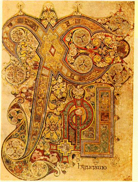 The Chi Rho page (folio 34R) of the Book of Kells. The page precedes the nativity story as related by St Matthew. The letters Chi, Rho and I are an abbreviation of "Christ".